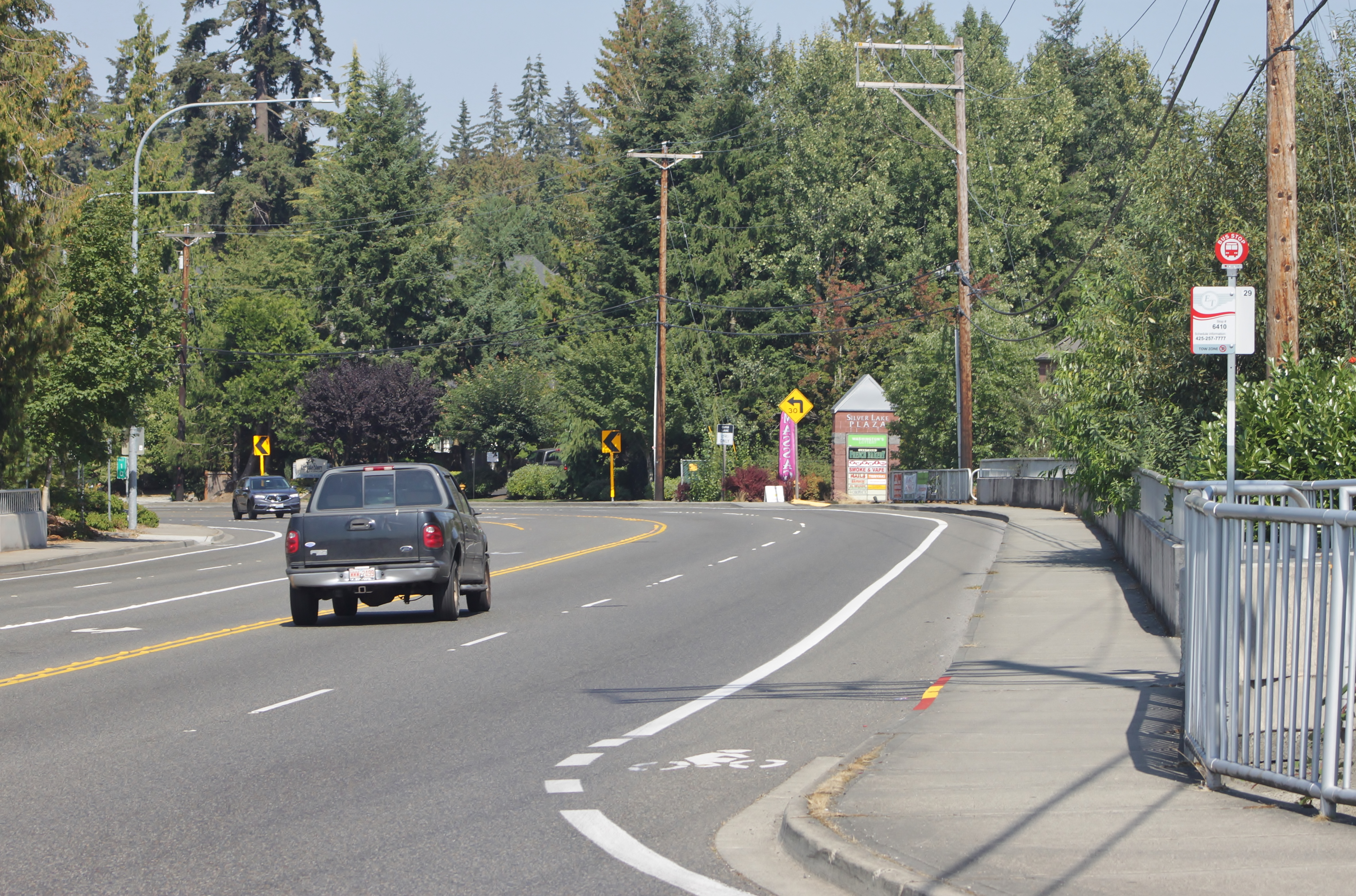 Looking northbound on Looking eastbound on State Route 527 in southern Everett, Washington.